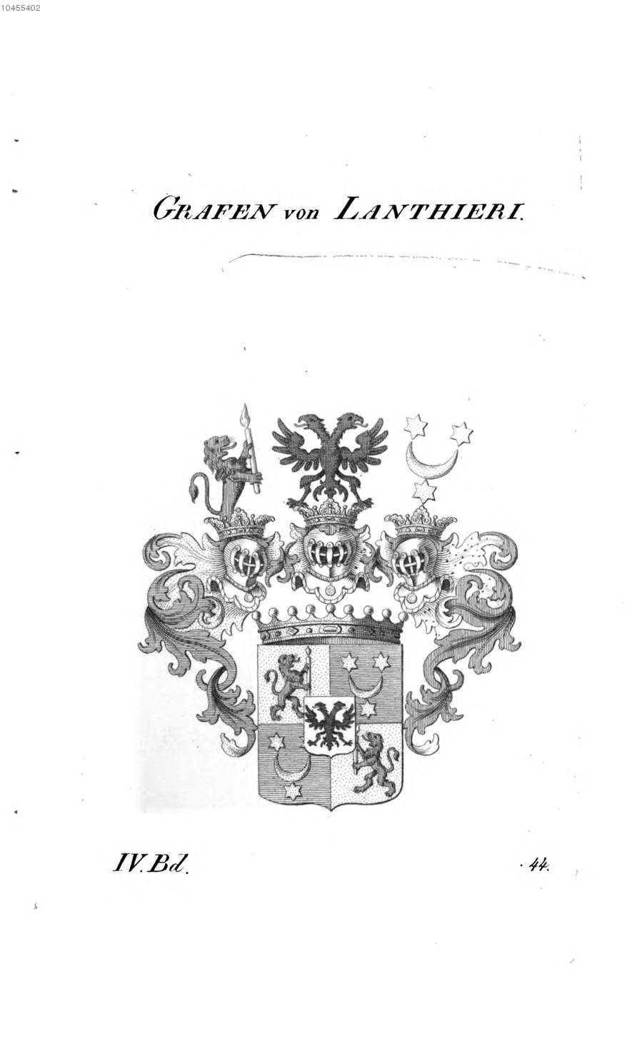 Wappen Lanthieri - Tyroff AT.jpg